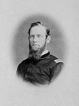 Photograph of Rev. William Earnshaw, D.D. made during the American Civil War by an unknown photographer. Earnshaw is wearing the shoulder strap ranks of a captain. The photograph was likely made in 1861 or 1862.